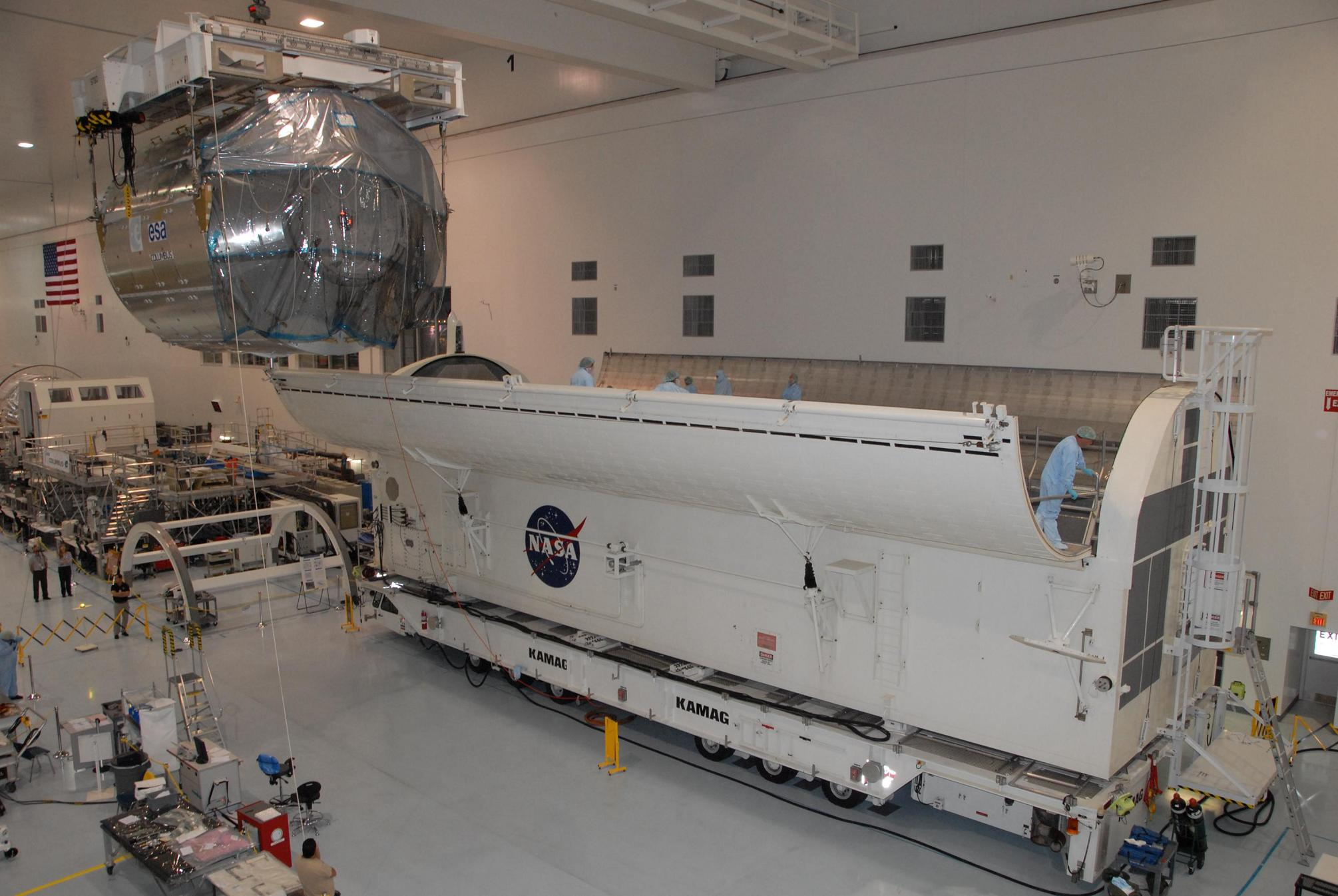 In the Space Station Processing Facility at NASA's Kennedy Space Center, the Columbus Laboratory module moves toward the waiting payload canister at right. The canister will transport the module and other payloads to Launch Pad 39A in preparation for its journey to the International Space Station. The European Space Agency 's largest single contribution to the International Space Station, Columbus will expand the research facilities of the station, providing crew members and scientists around the world the ability to conduct a variety of life, physical and materials science experiments. The module is approximately 23 feet long and 15 feet wide, allowing it to hold 10 large racks of experiments. The module is scheduled to be transferred to Launch Pad 39A in early November, in preparation for its journey to the station. Columbus will fly aboard space shuttle Atlantis on the STS-122 mission, targeted for launch Dec. 6.